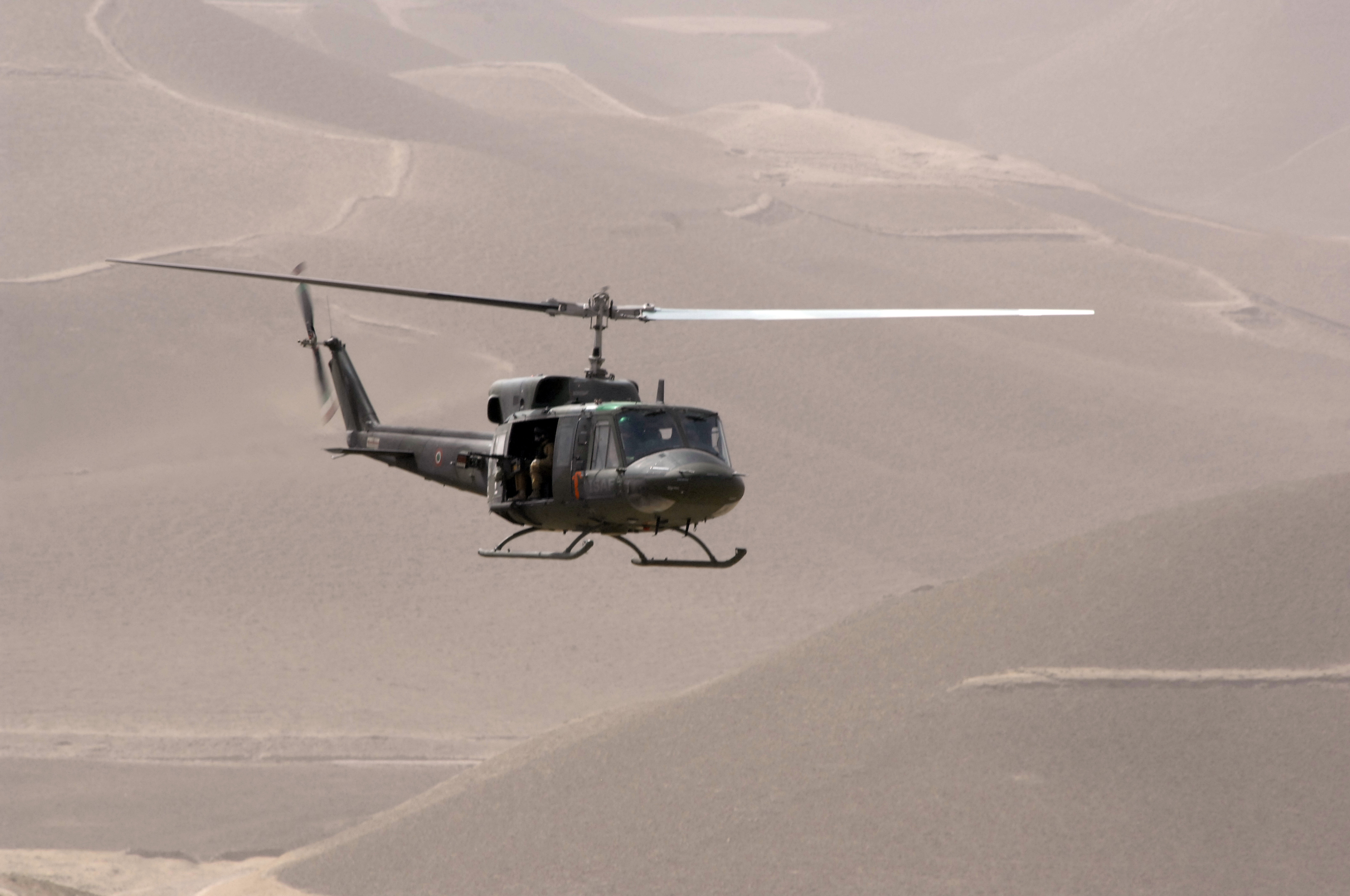 BALA MURGHAB, Afghanistan- An Italian AB-212 helicopter flies over western Afghanistan during an International Security Assistance Force (ISAF) flight, Oct. 4, 2008. ISAF is assisting the Afghan government in extending and exercising its authority and influence across the country, creating the conditions for stabilization and reconstruction. (ISAF photo by U.S. Air Force TSgt Laura K. Smith)(released)